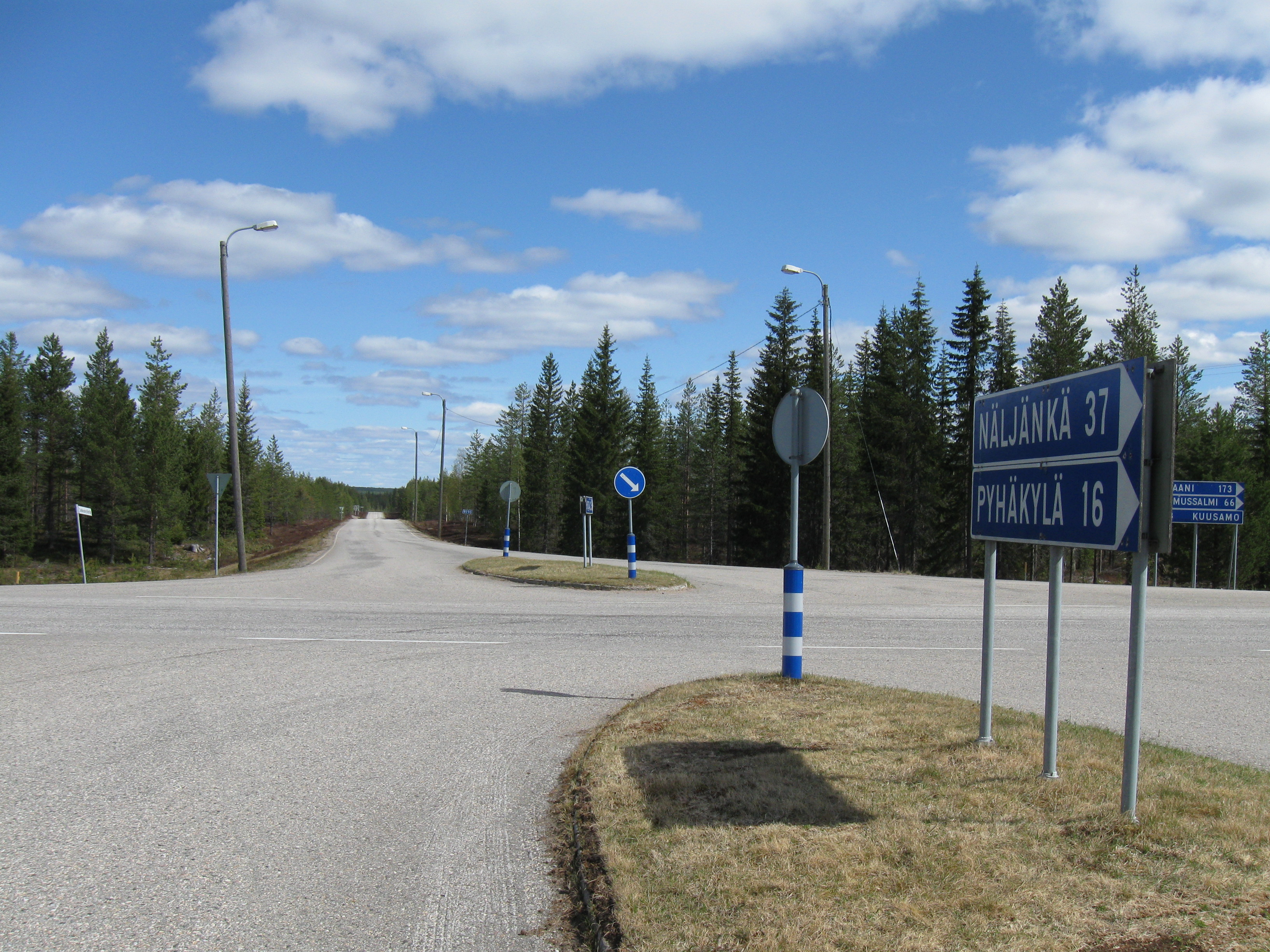 Connecting road 9190 – one of the so called Kekkonen's roads, in Peranka, Suomussalmi, Finland, seen towards Hossa from the crossing of the main road 5 (E63).